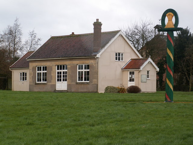 Burston Strike School On 1 April 1914 children at Burston School marched to support their two dismissed teachers, Tom and Kitty Higdon. The Higdons were closely associated with the Agricultural Workers' Union and this lead to conflict with the local squirearchy and the Church of England which was responsible for the school. It was to become the longest strike in history. The Strike School was firstly located in the blacksmith's workshop and then moved to purpose built premises erected on Burston Village Green by Labour Movement subscription. It functioned up until the beginning of the Second World War. Tom Higdon died in August 1939 and the school closed a few months later as Kitty, then in her seventies, was unable to carry on alone. Since 1984, an annual rally has been held in Burston each September to commemorate the first demonstration held in 1914 and celebrate the struggles that took place in Burston in the first half of the last century. Information edited from See also TM1484